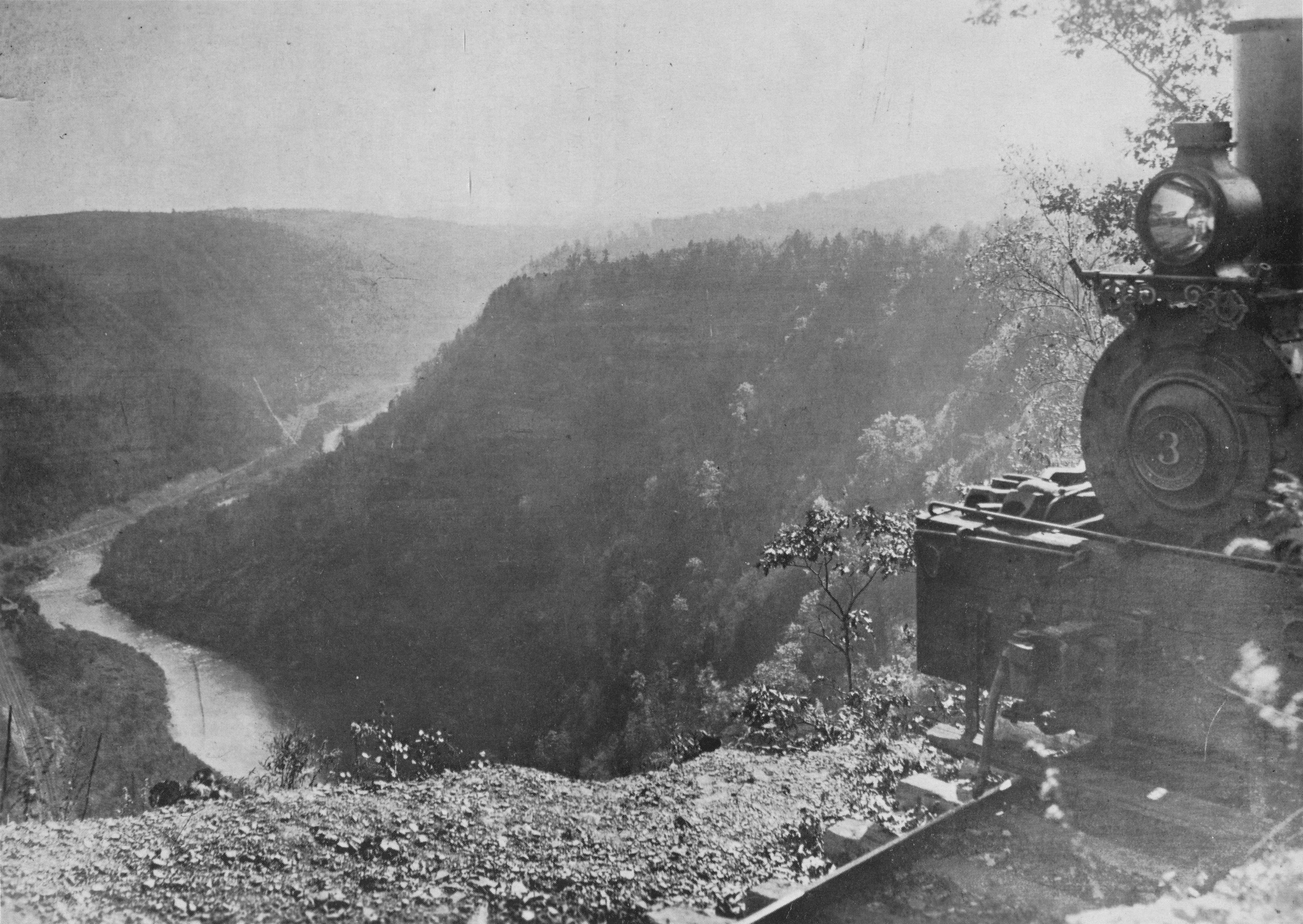 Shay Locomotive of a Lumber Train in what is now Colton Point State Park, on Pine Creek in Shippen Township, Tioga County, Pennsylvania, USA.